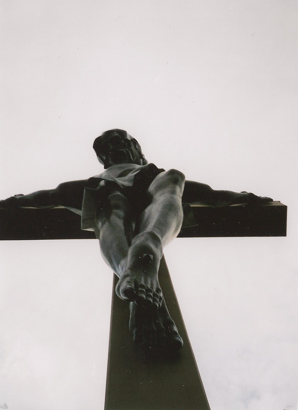 Cross in the Woods in Indian River, Michigan (United States).